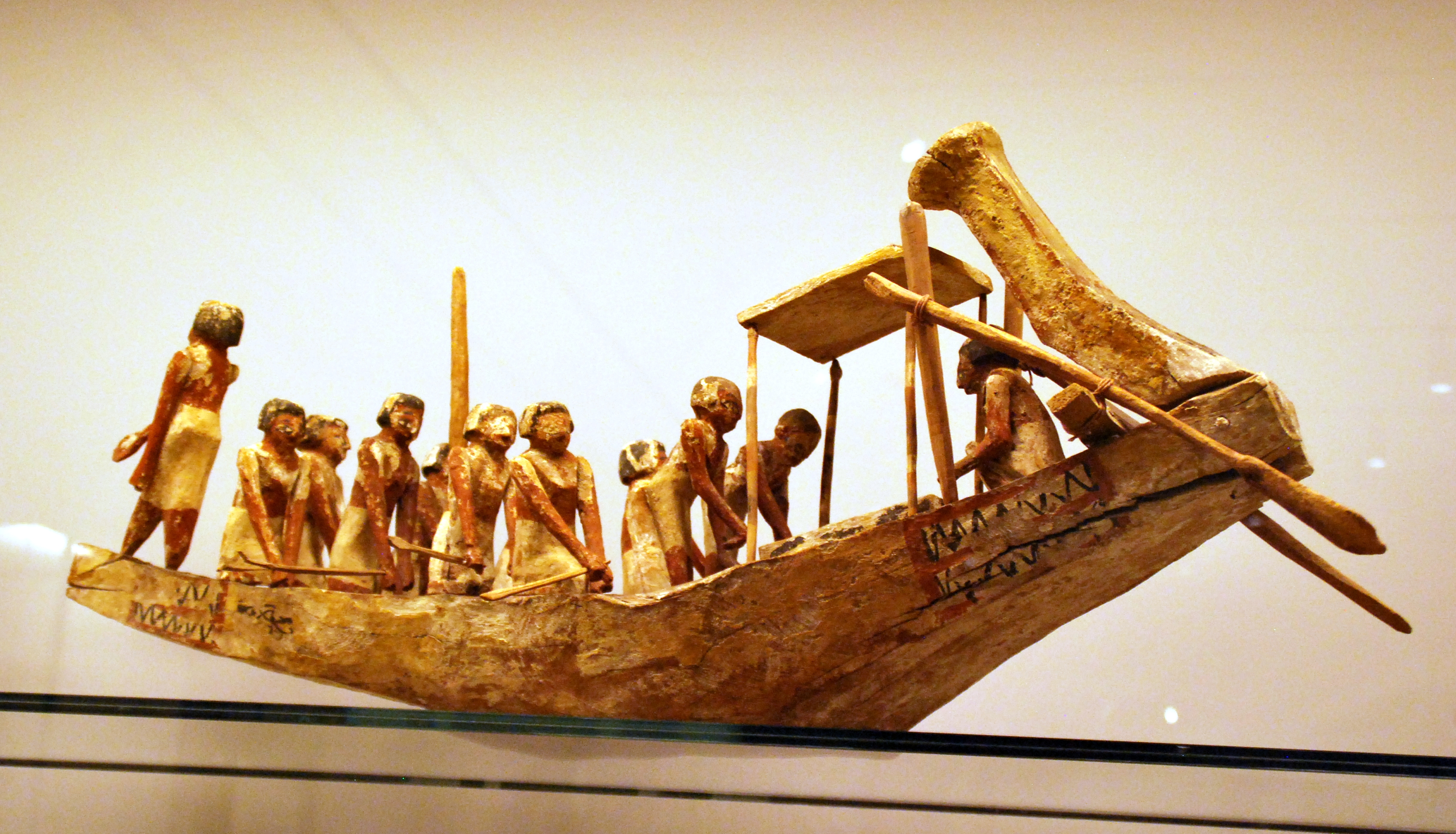 Djehutynakht is believed to have been a Nomarch or Governor of Hermopolis during Egypt's Middle Kingdom period around the late 11th to early 12th dynasty.[1] He and his unnamed wife was buried in tomb 10a at an area known as Deir el-Bersha along with the largest collection of funerary models ever found in Egypt such as 55 model boats for the tomb owners to enjoy in the afterlife.